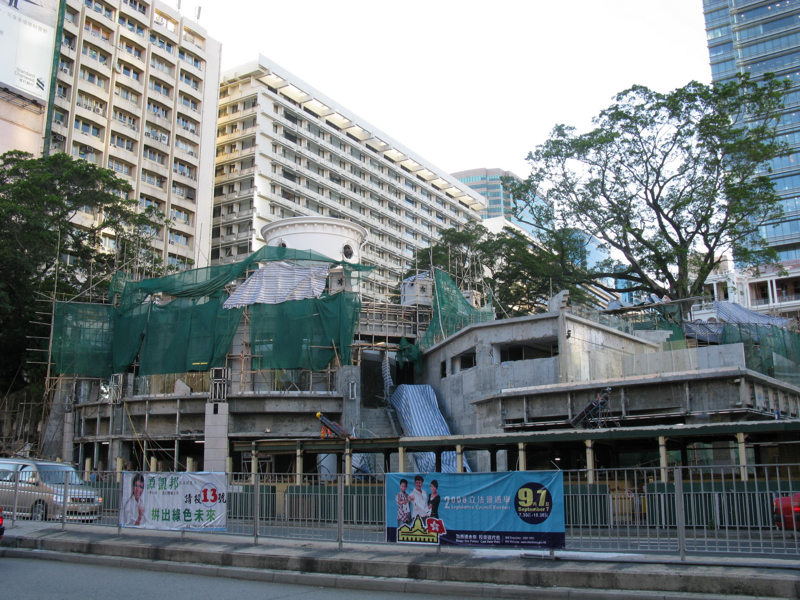 Former Marine Police Headquarters Compound (2008/08)